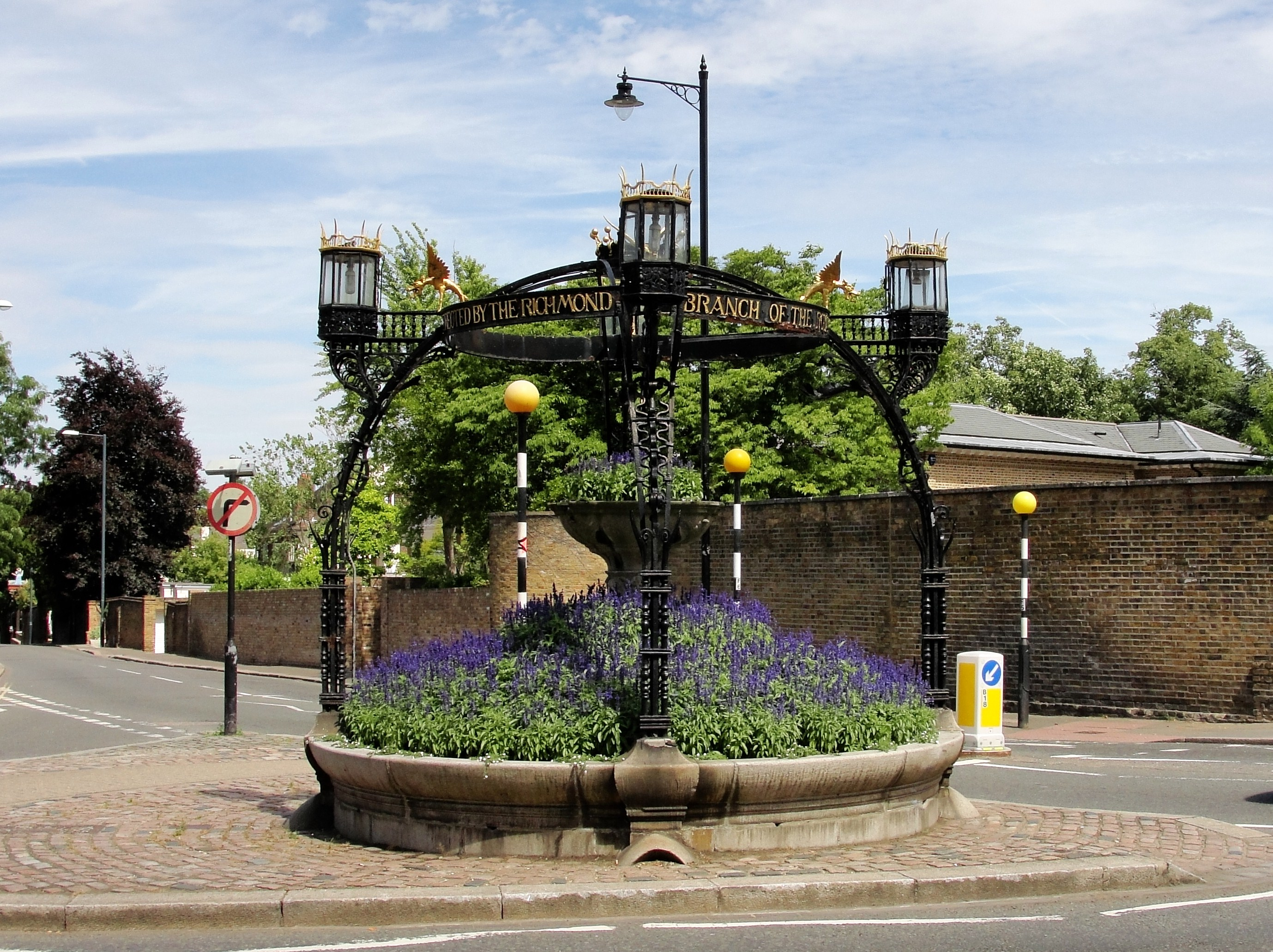 Monument for the prevention of cruelty to animals. At the top of Richmond Hill and opposite The Star and Garter. Originally drinking fountain.